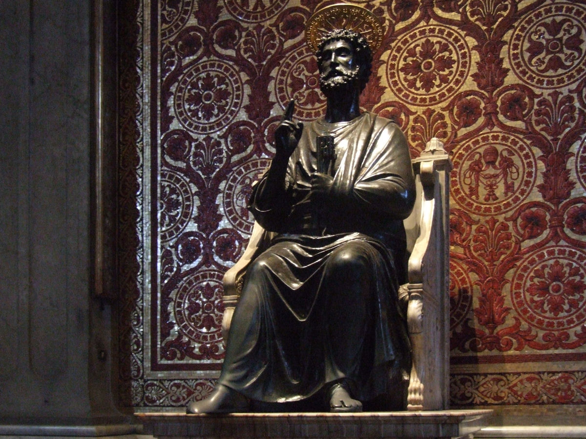 St. Peter's Basilica, Rome, Italy - Saint Peter statue